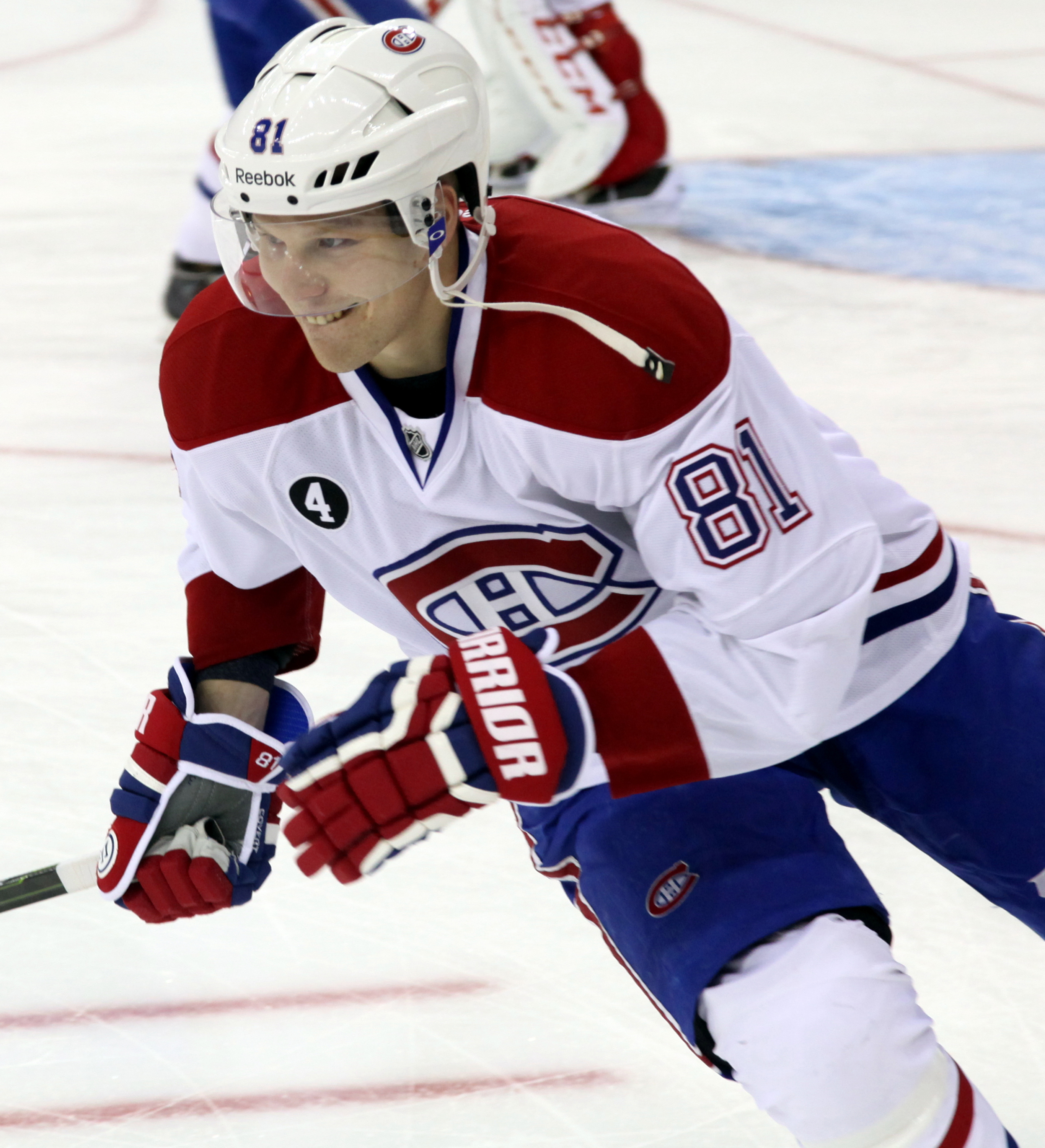 Lars Eller in January 2015.